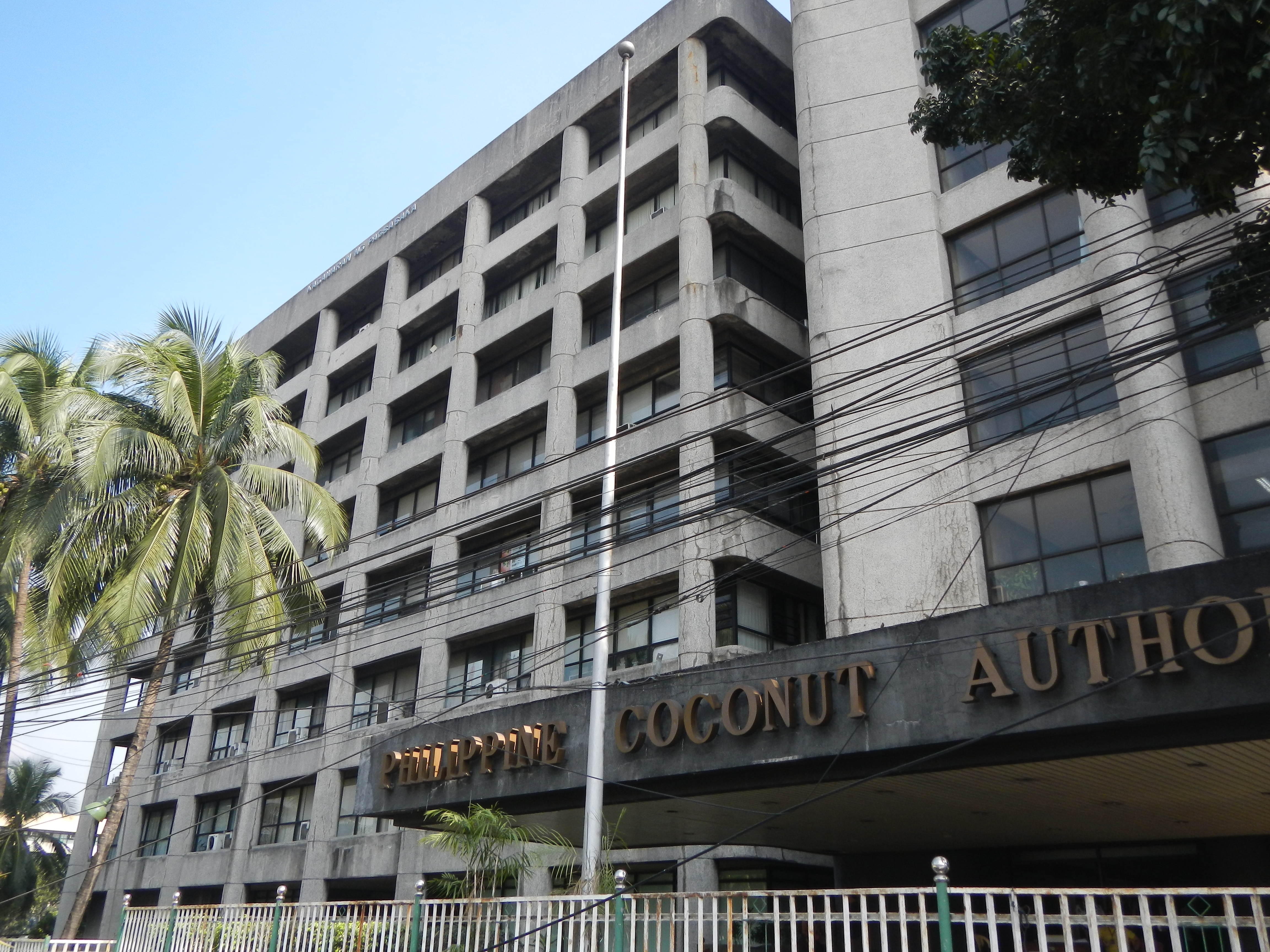 [Philippine Coconut Authority